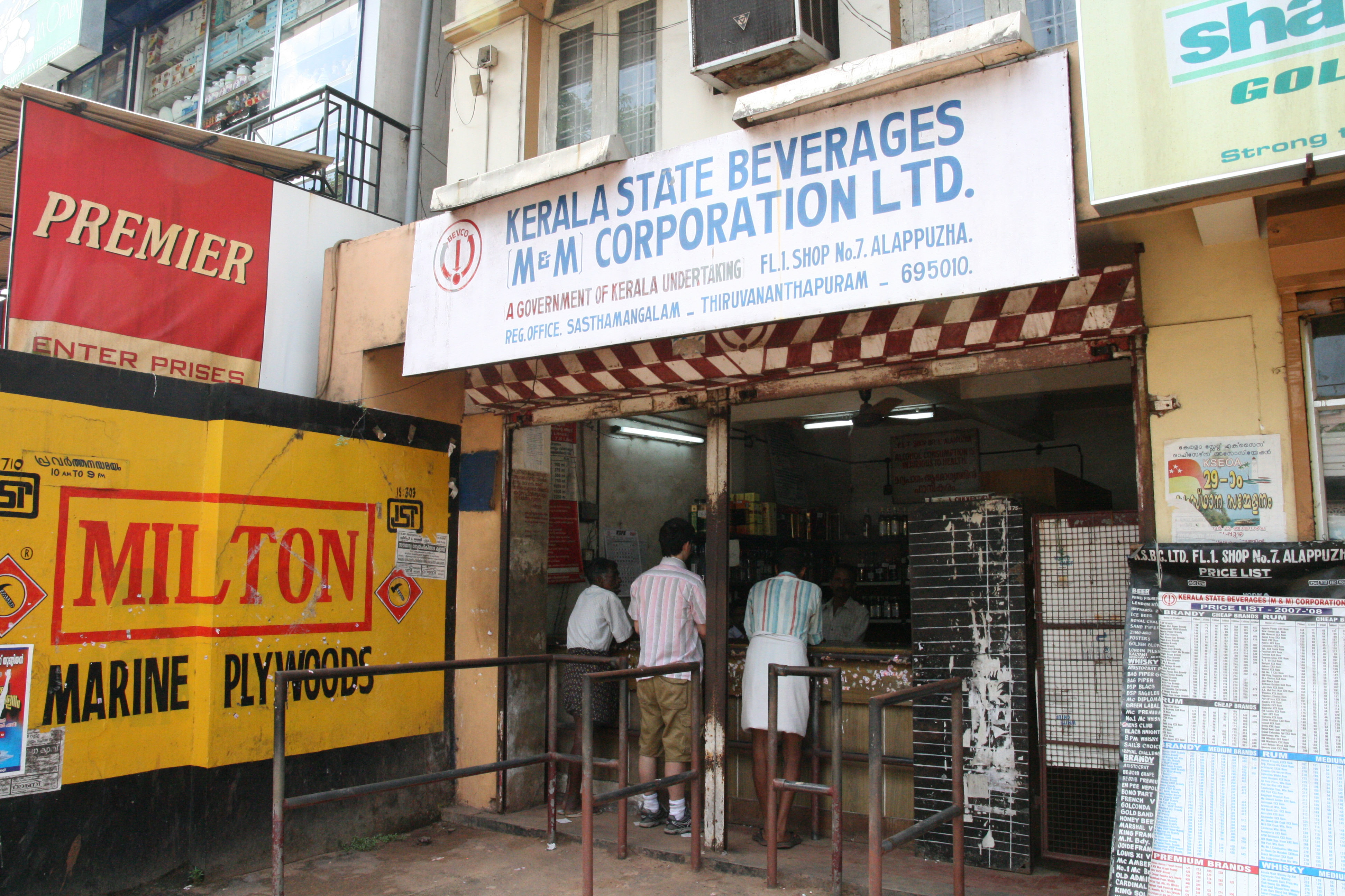 Retail outlet of Kerala State Beverages at Allapuzha